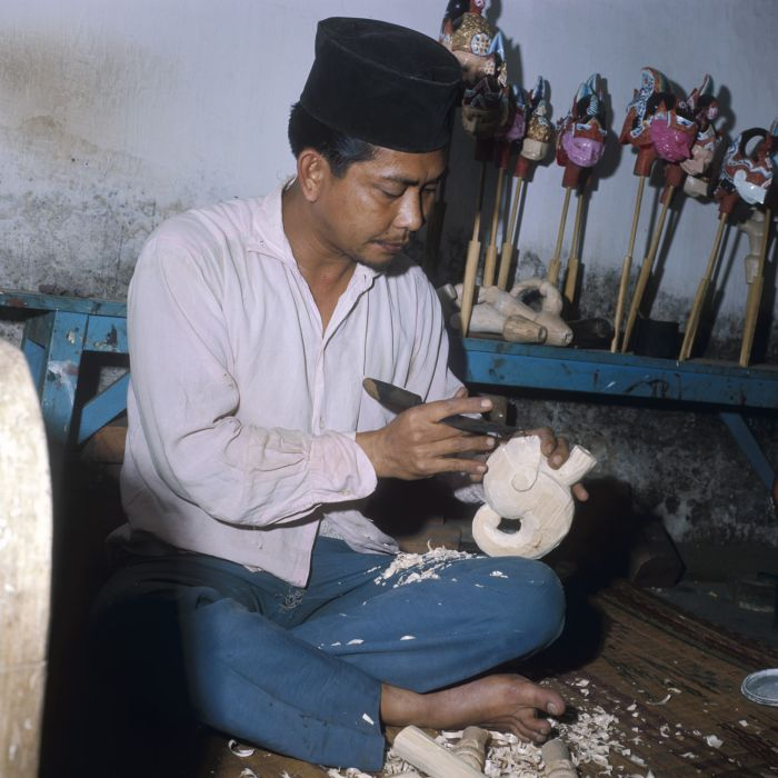 The making of wayang golek puppets